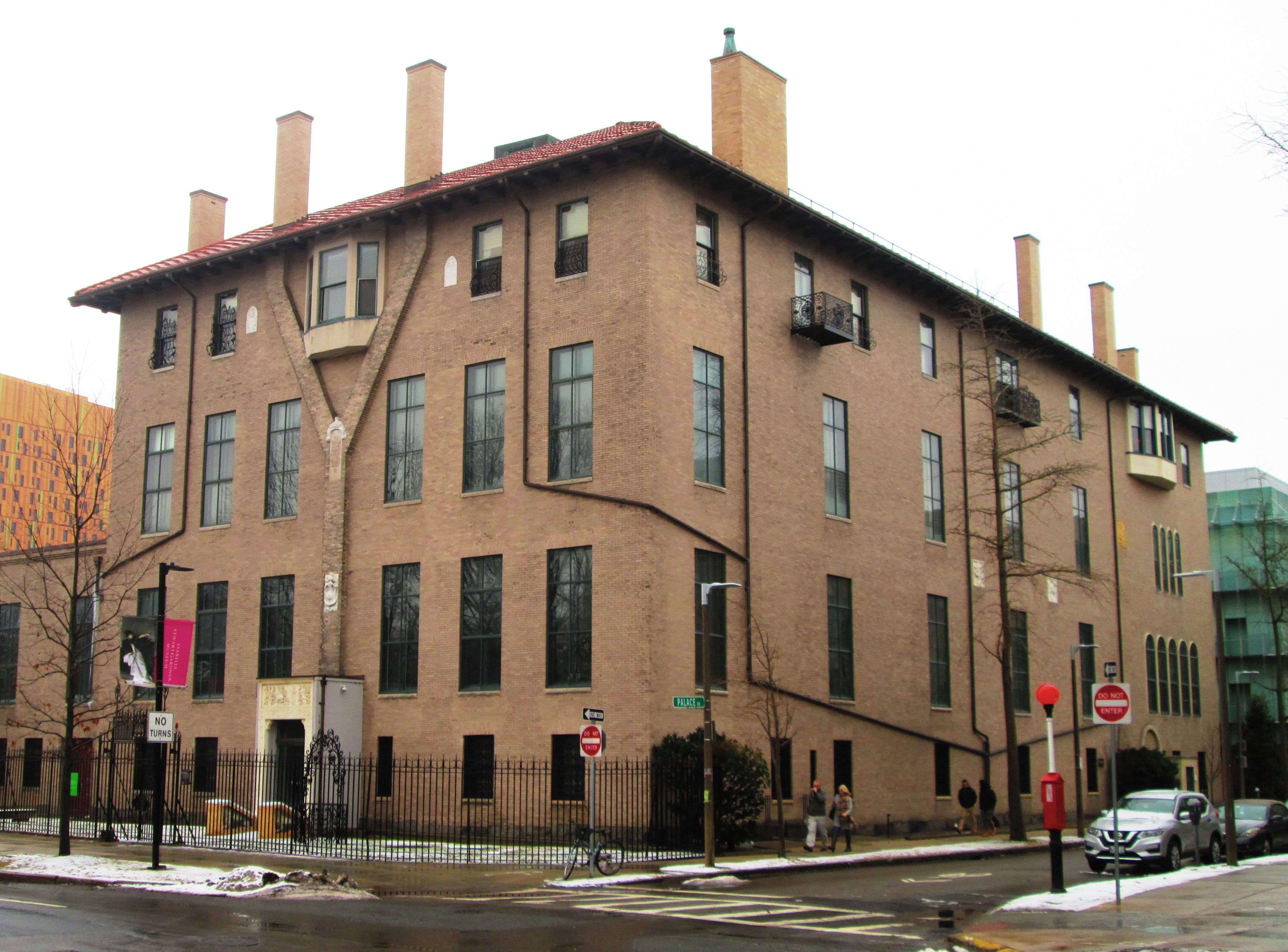 The original building of the Isabella Stewart Gardner Museum -- called "Fenway Court" when Gardner was alive -- is one of the two buildings of the museum. Located on the Fenway, it was built in 1902 and was designed by Willard T. Sears.